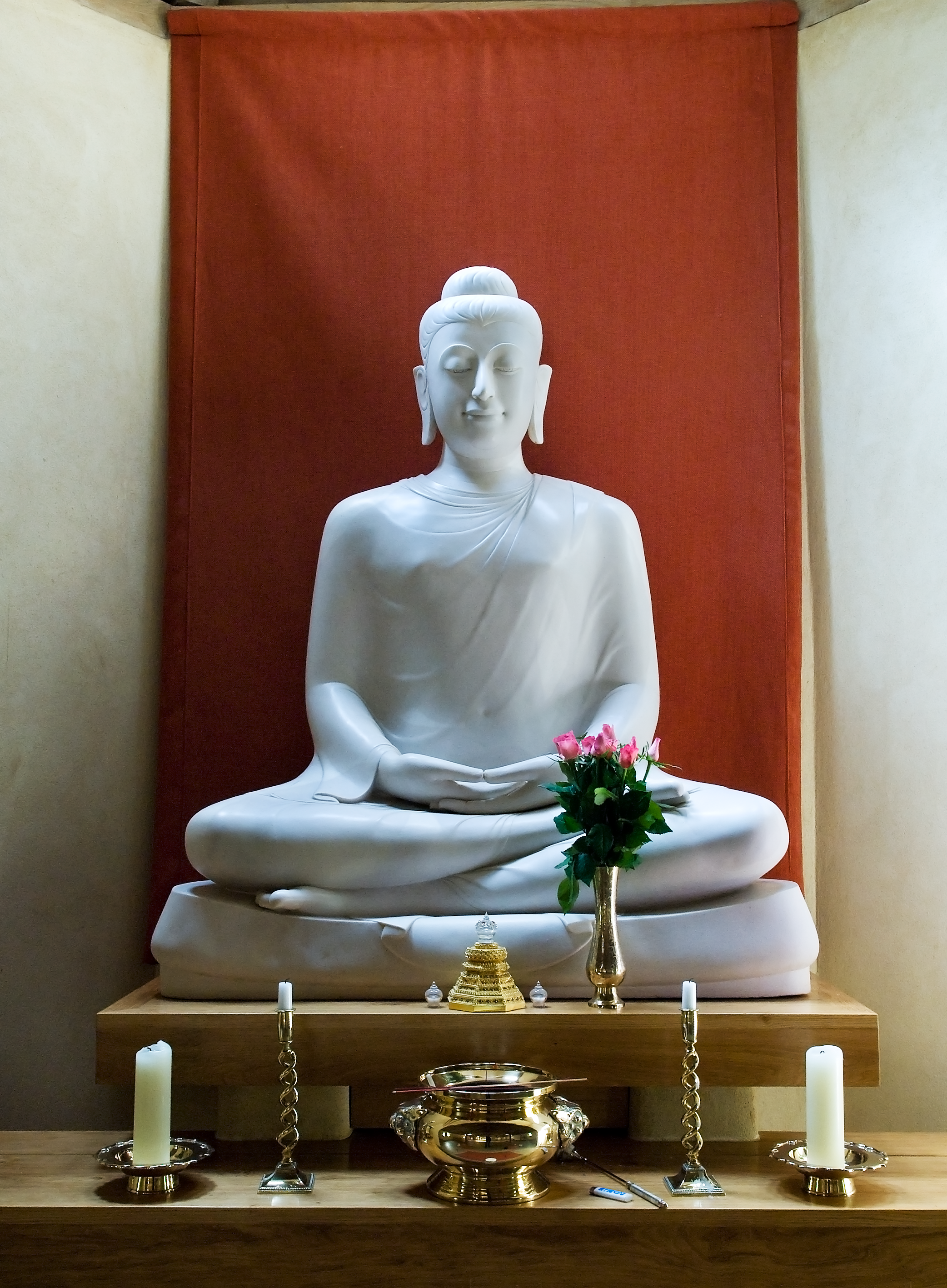 Main Buddha from the Chithurst Dhamma hall